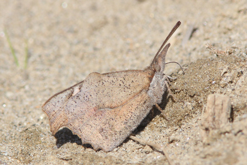 Libythea celtis. Location: France - Languedoc-Rousillon